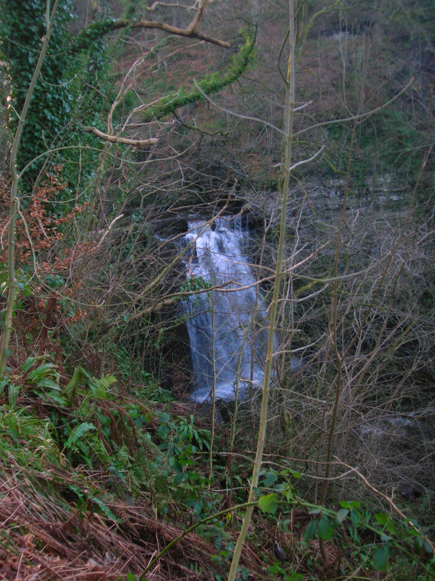 Linn Glen waterfall, Caaf Water, Dalry, North Ayrshire, Scotland.